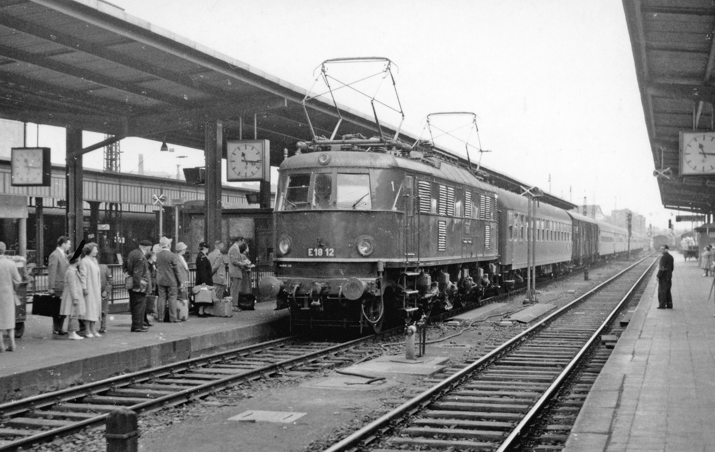 Würzburg Hbf., 1958: Passau - Dortmund express, now electrified.